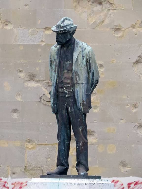 Statue modeled after the small bronze “Ritratto di Giovanni Fattori” (Portrait of Giovanni Fattori) by Valmore Gemignani. In 2008 the monument was re-erected in its original location off piazza della Repubblica, in Livorno